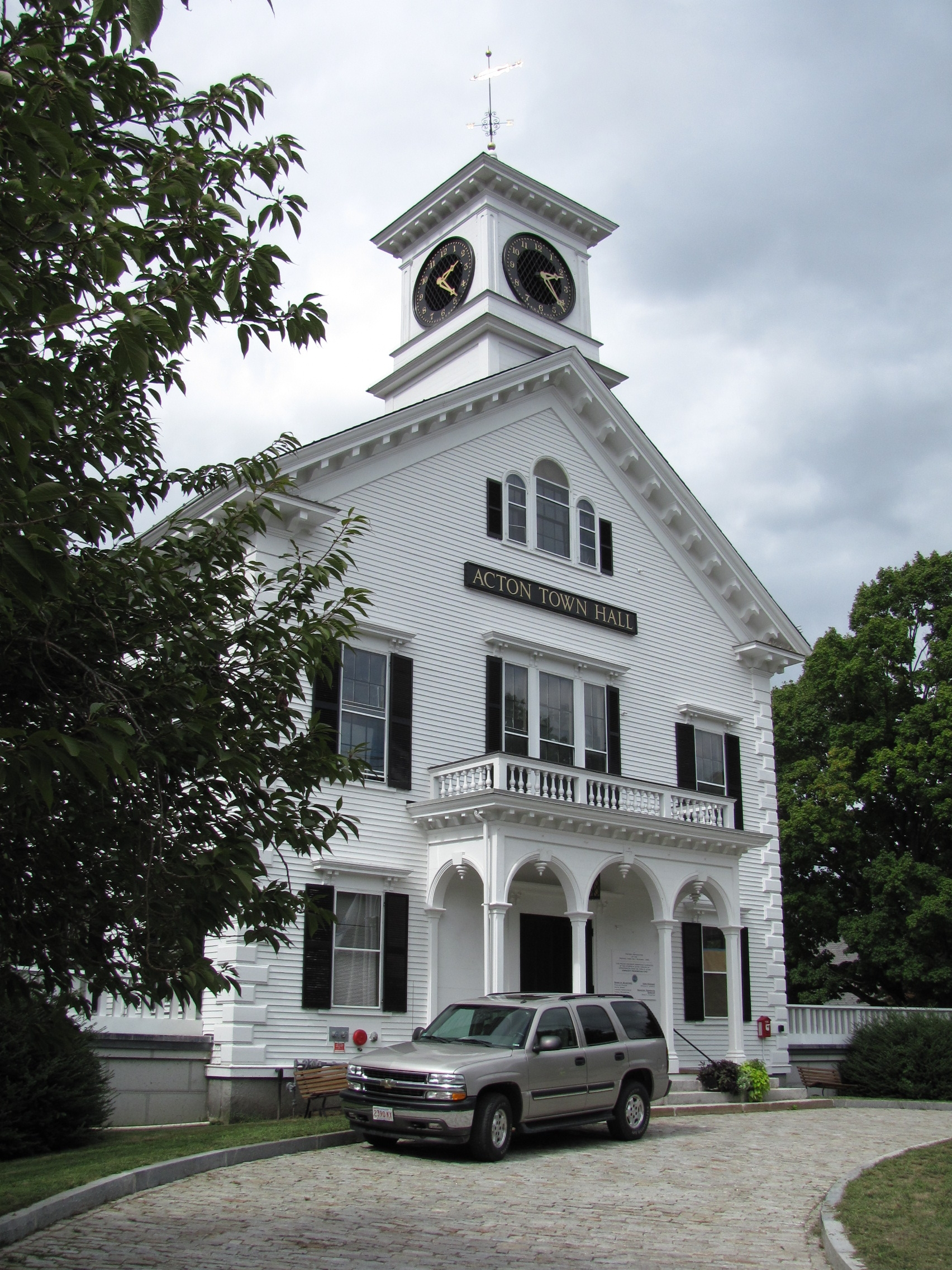 Town Hall, Acton Massachusetts